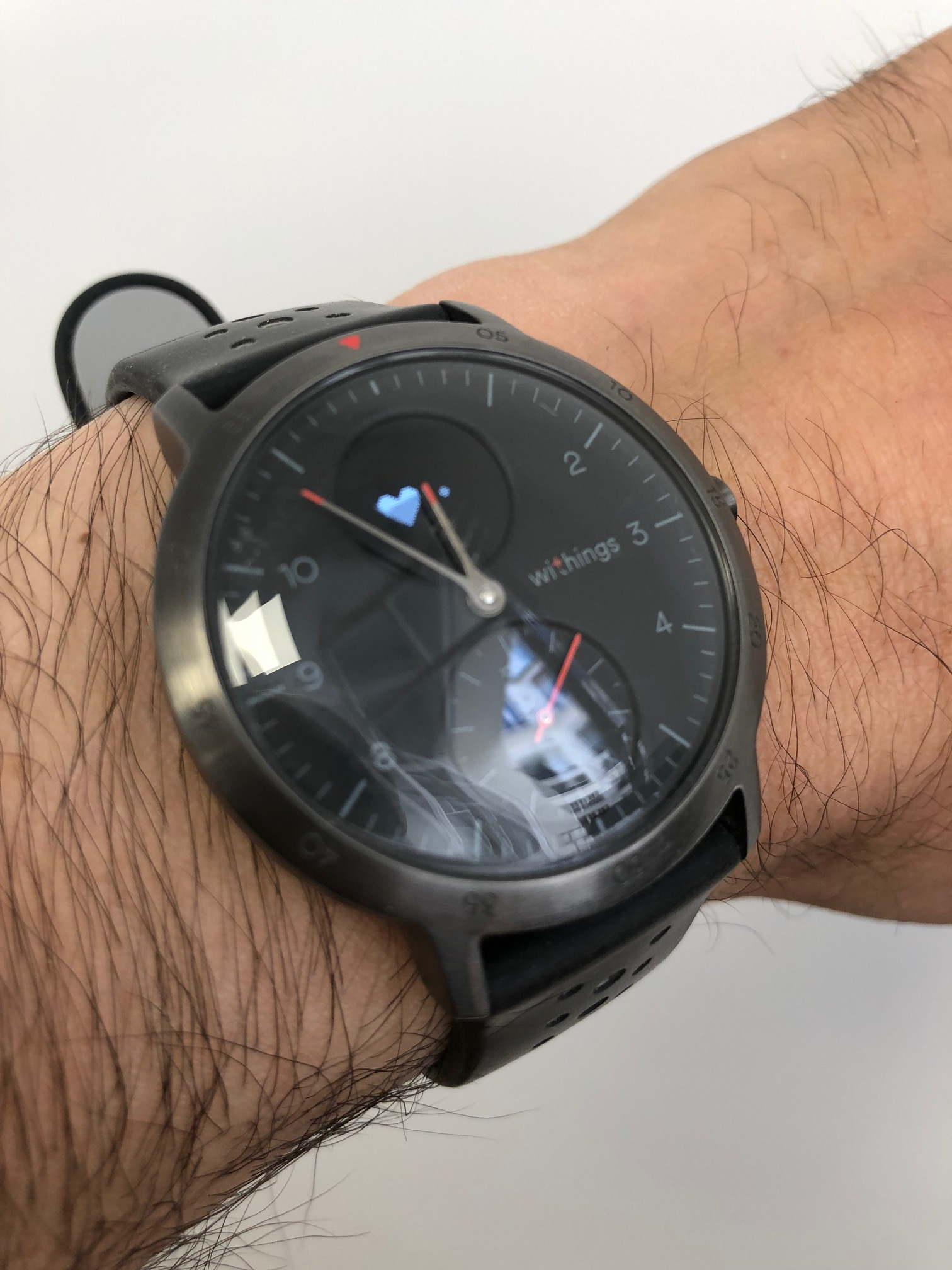 Withings Steel HR Sport connected tracker